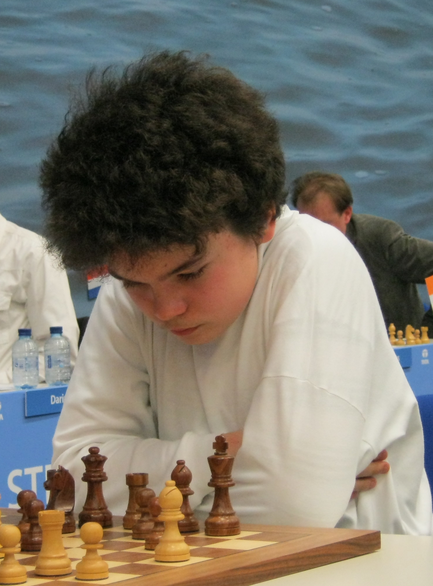 Illya Nyzhnyk, chess player from Ukraine